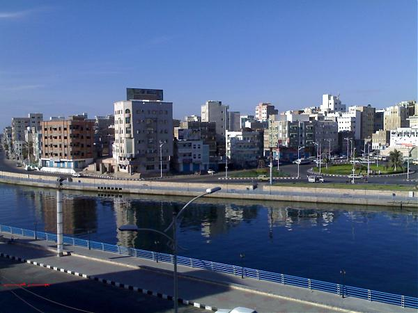 mukalla